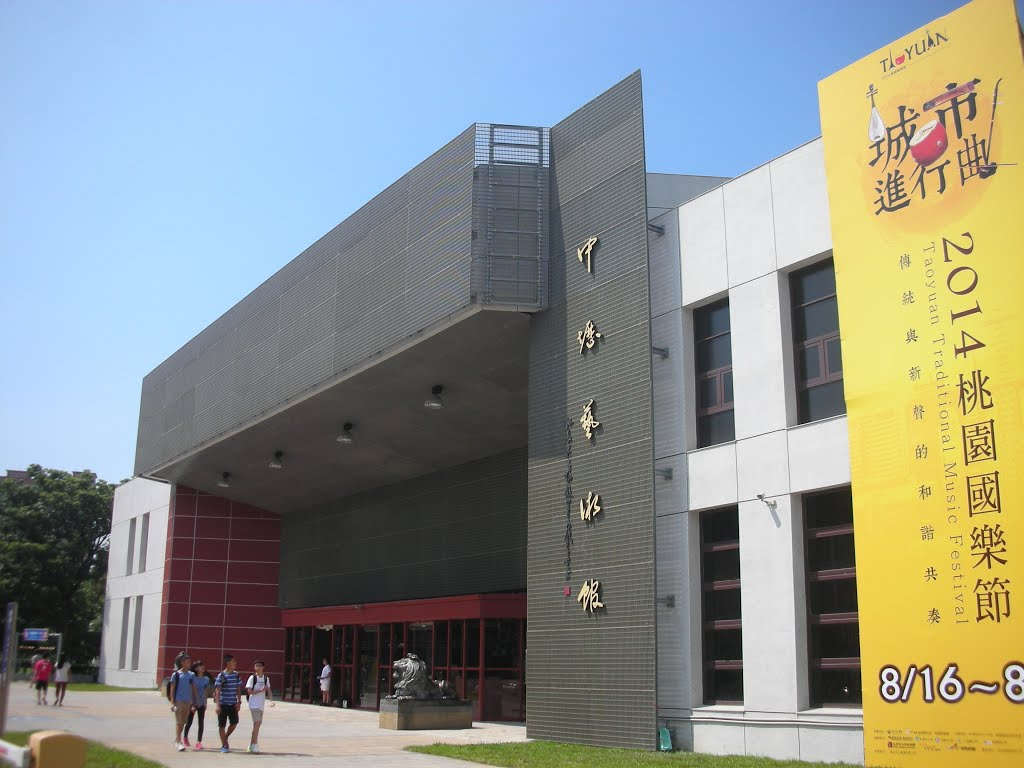 Zhongli Arts Hall, Zhongli City, Taoyuan County, Taiwan